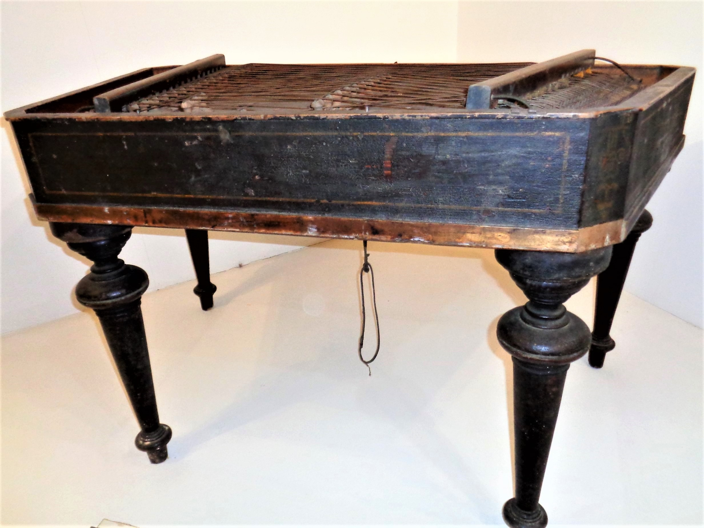 Cimbule - old musical instrument from Međimurje in the Medjimurje County Museum in Čakovec (Croatia)